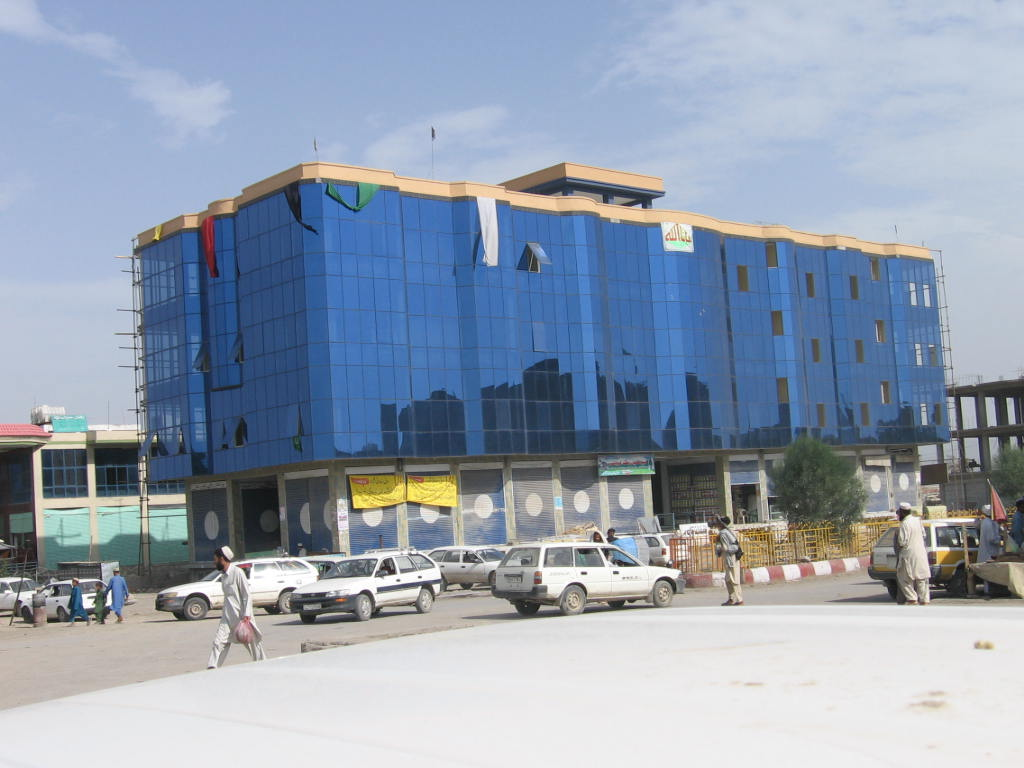 Main business and shopping area of Khost City, Afghanistan.